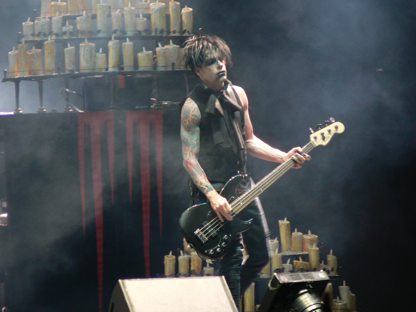 Rob Holliday playing with Marilyn Manson at the Southside Festival in Germany